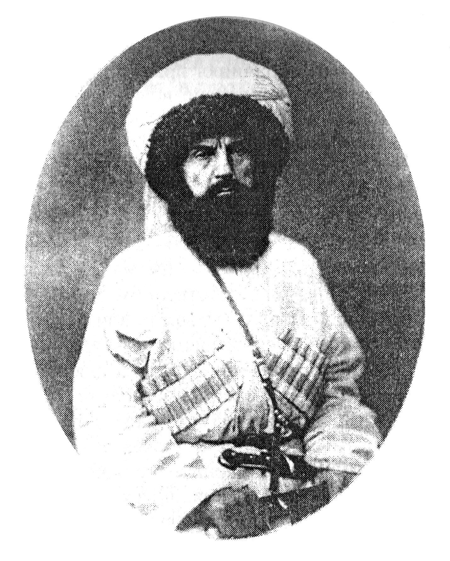 Imam Shamil, foto, XIX century